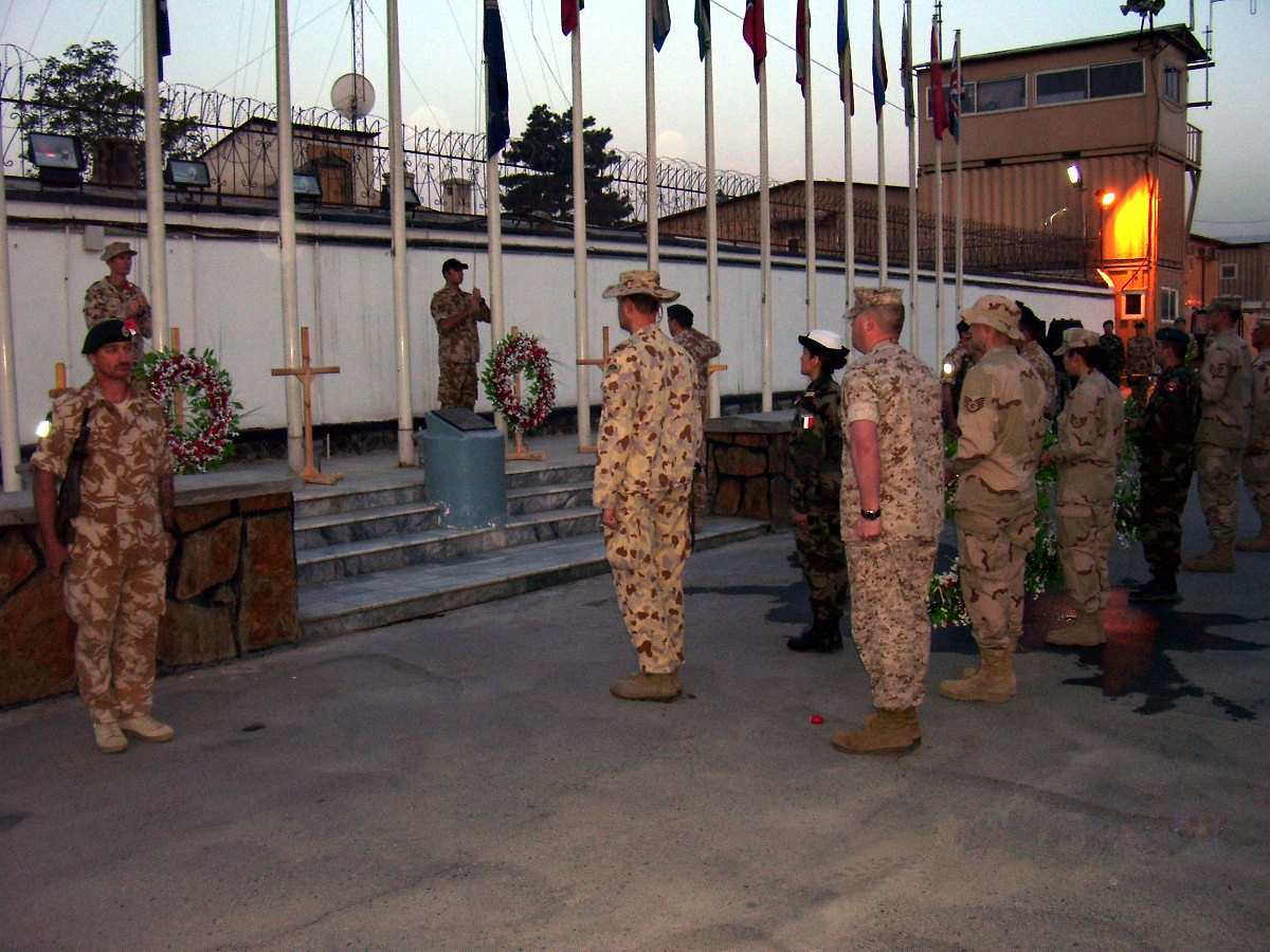 Camp Eggers, Kabul, Afghanistan on Anzac Day, an Australian and New Zealand Army remeberance day. Centered is Lieutenant Colonel Gellel, Australian Army. Other countries pictured are New Zealand Army, French Army, US Marine Corps, US Air Force, Turkish Army, and US Army. (Author:"Gizmo" Johnson